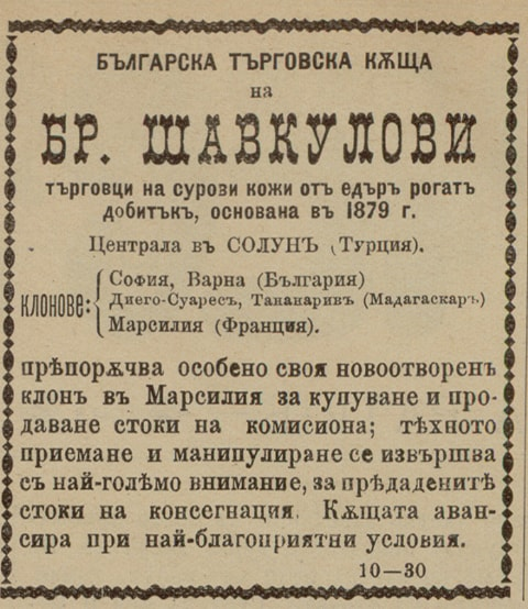 Chafcouloff frères advertisement.